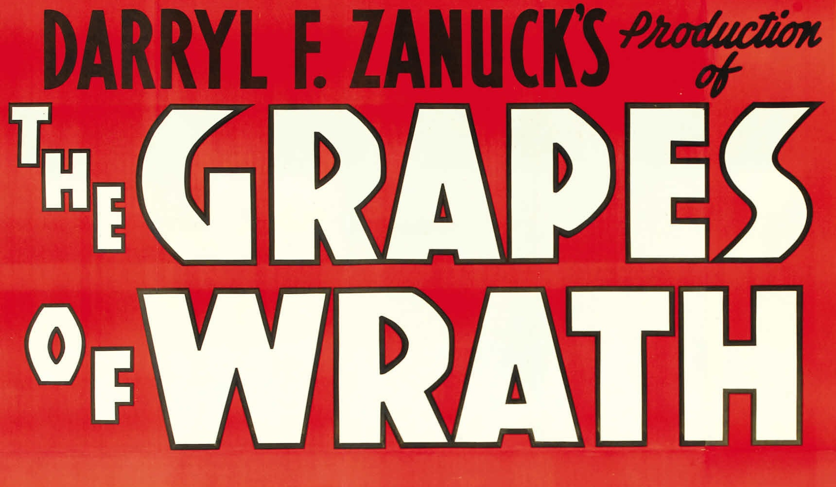 Title of "The Grapes of Wrath" taken from the poster